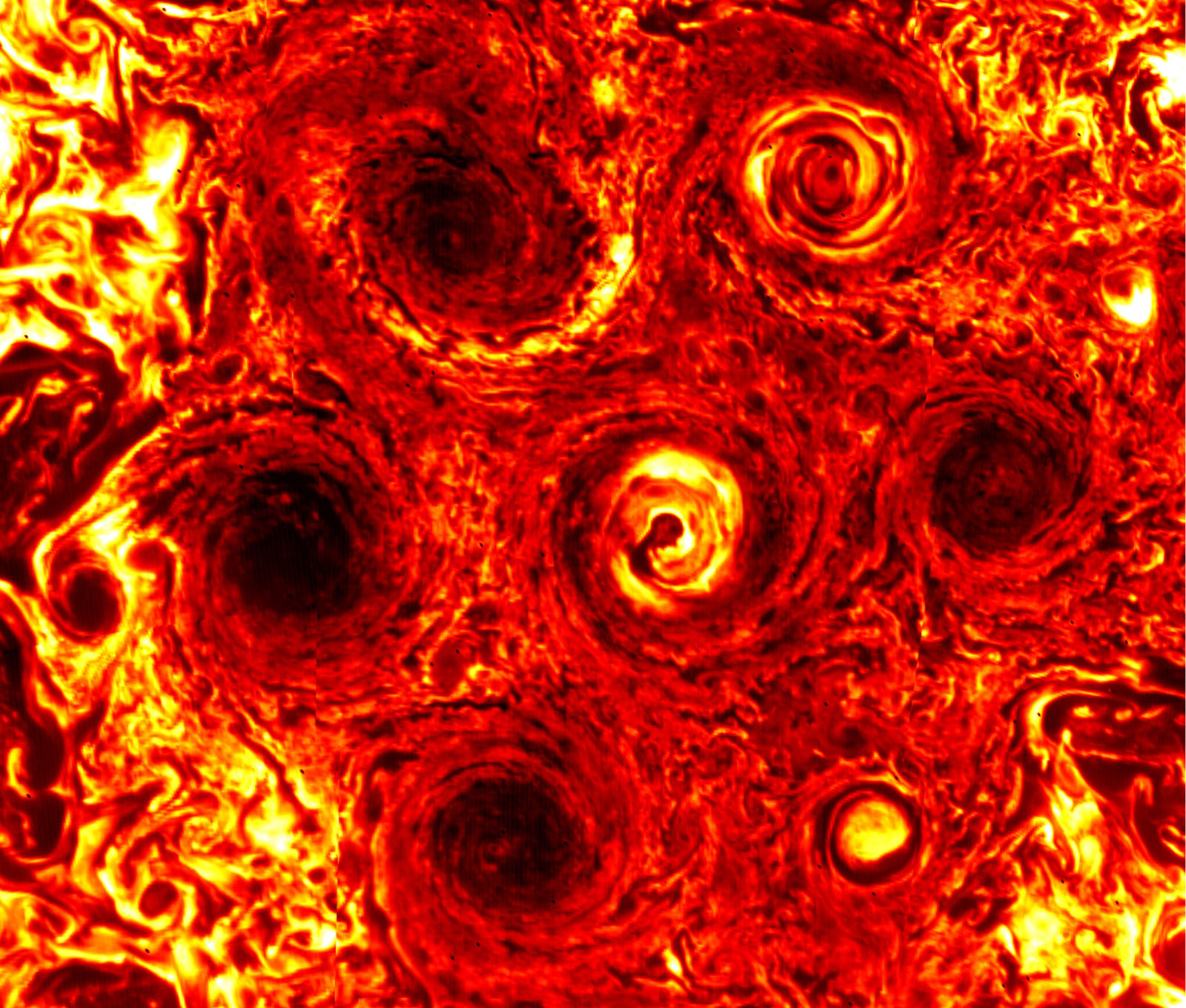 This image shows the southern circumpolar cyclones on Jupiter that was taken by JIRAM.